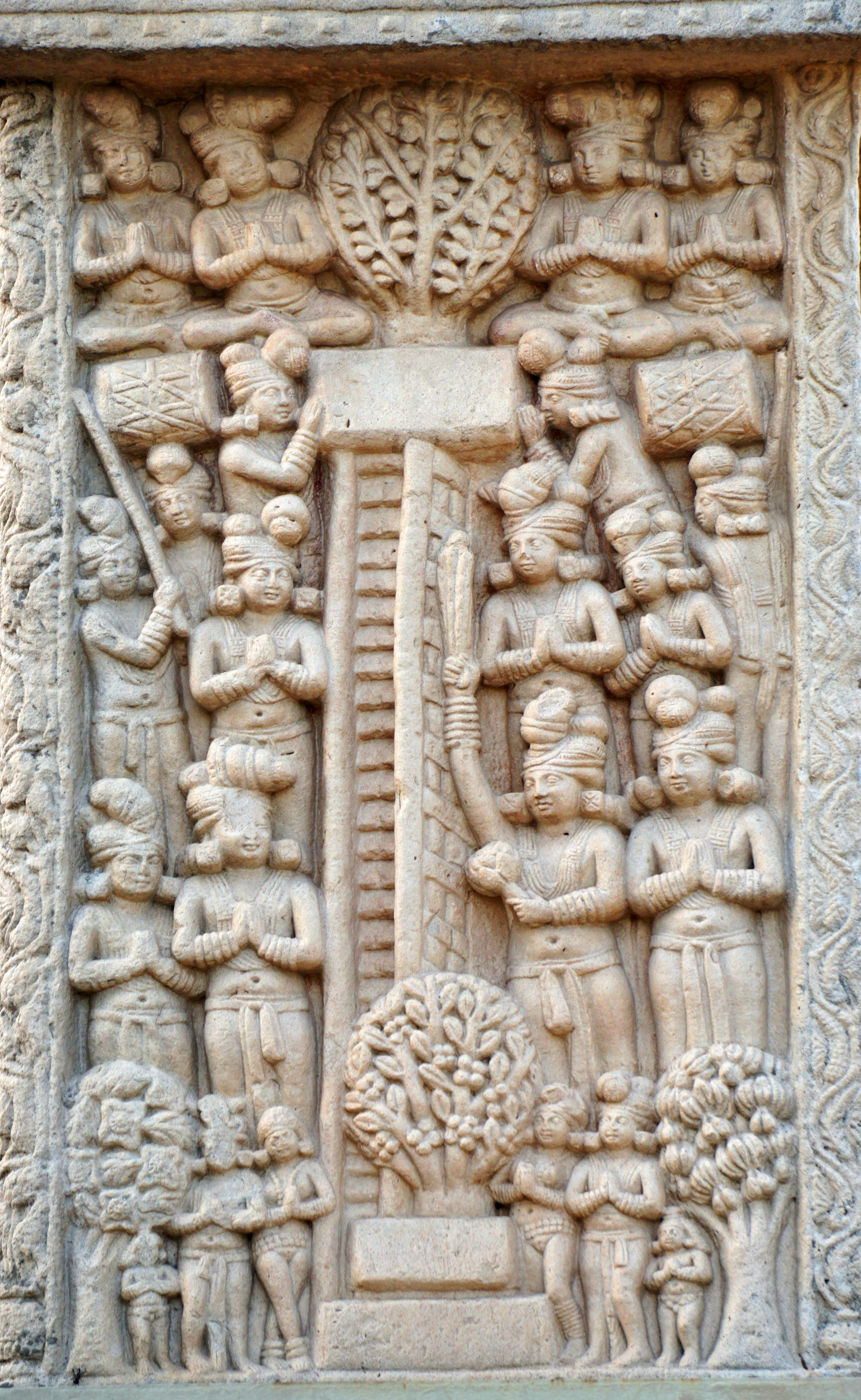 Descent of the Buddha from the Trayastrimsa Heaven Sanchi Stupa 1 Northern Gateway. Descent at Sankissa. Photograph by Anandajoti Bhikkhu